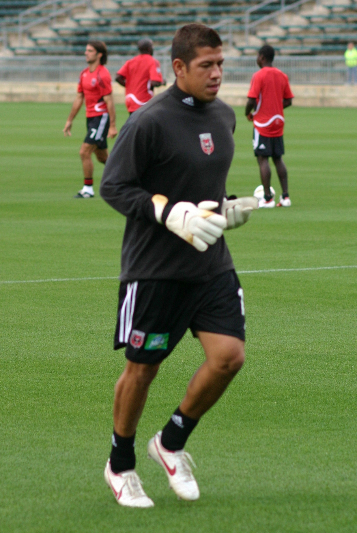 Nick Rimando before a Lamar Hunt U.S. Open Cup match against the Charleston BatteryIMG_2114